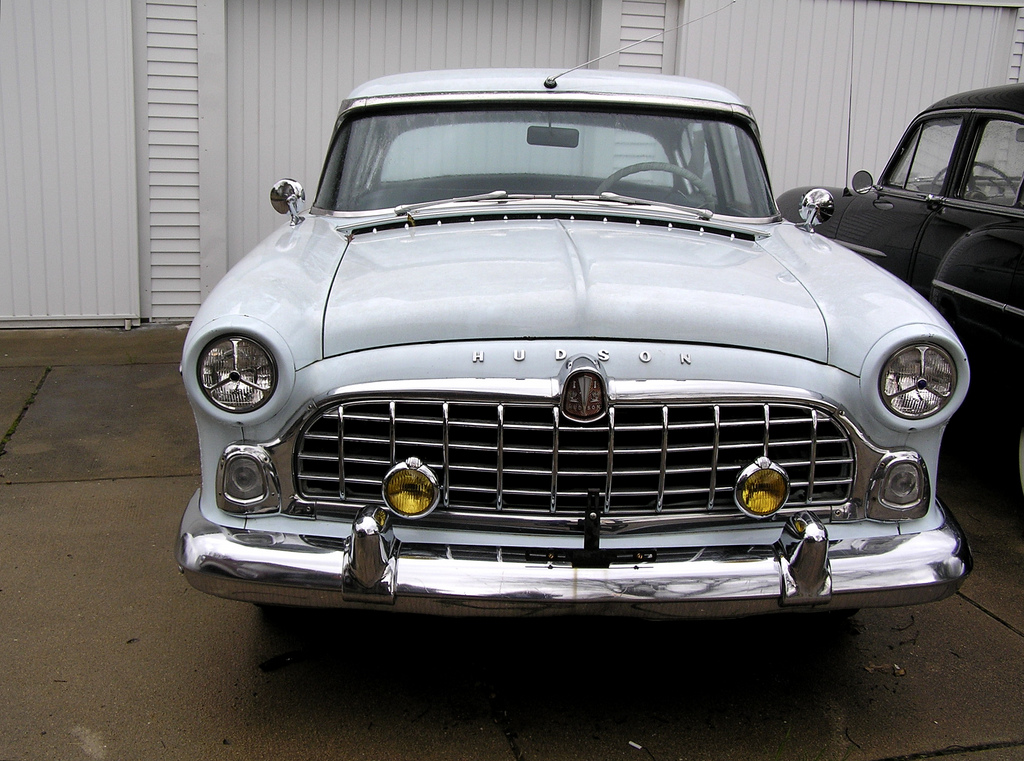 1955 Hudson Wasp (second generation).